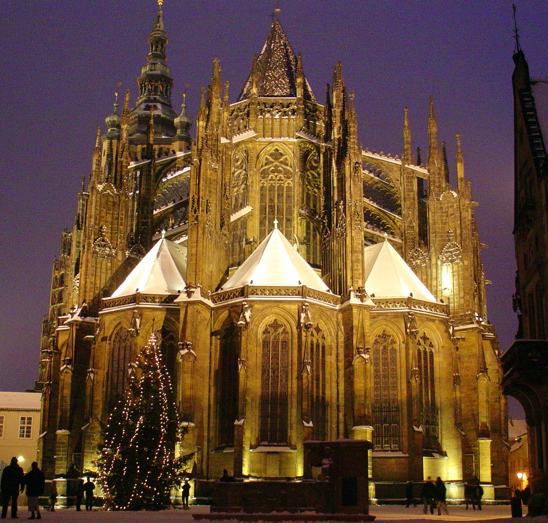 Please, have this description accessible to all by translating it in different languages.